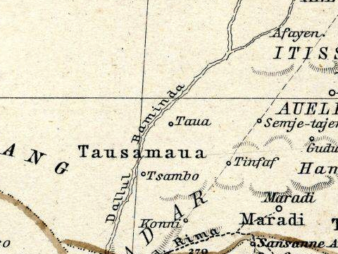 Taua (Tahoua) in Adolf Stielers Handatlas, 1891.